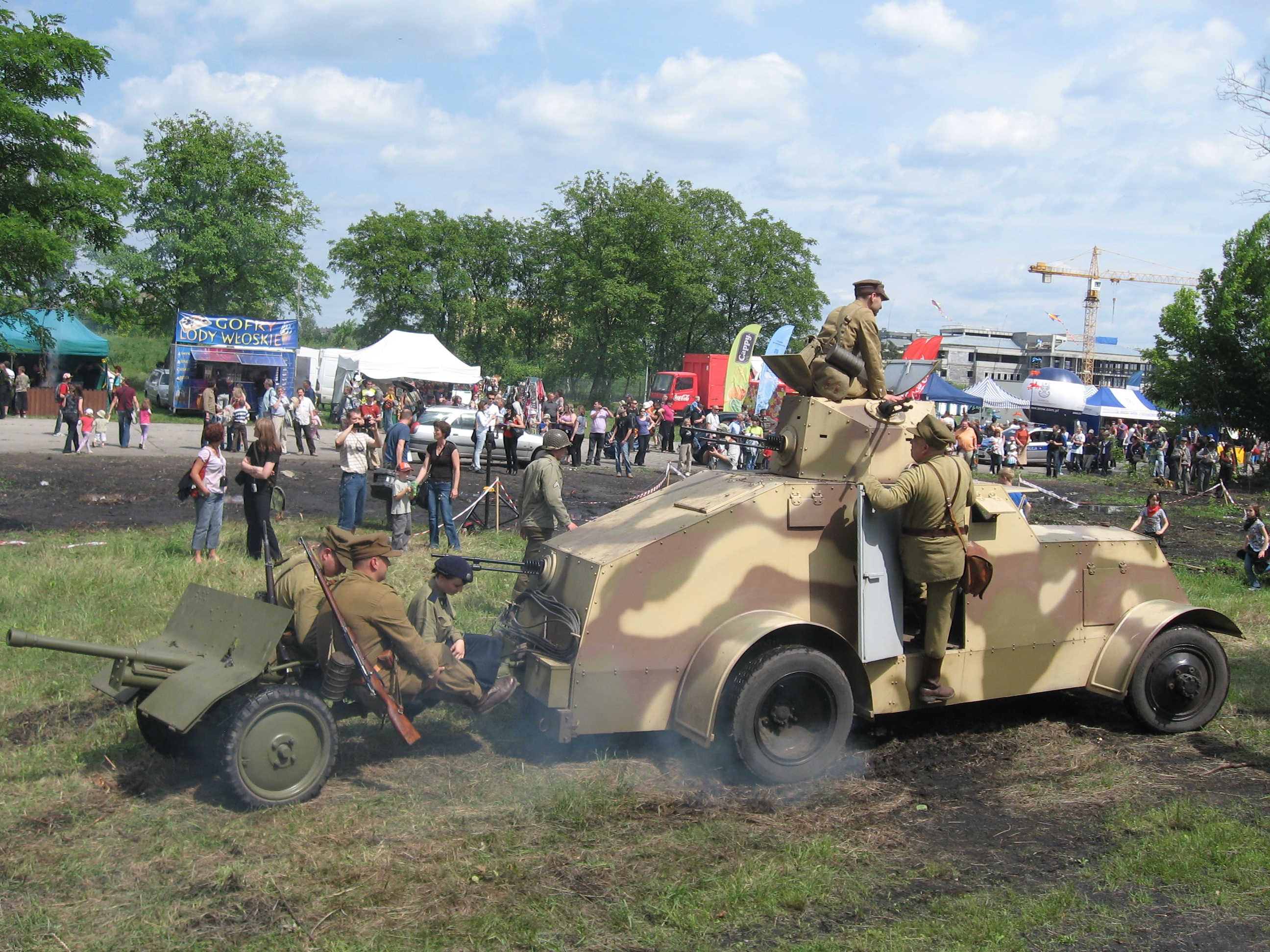 Wzór 29 Ursus armored car towing a wzór 36 anti-tank gun during the VII Aircraft Picnic in Kraków.